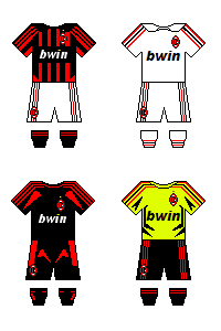 AC Milan kits in 2008/09 season, from the left: Home colours Away colours Third kit Goalkeeper's kit